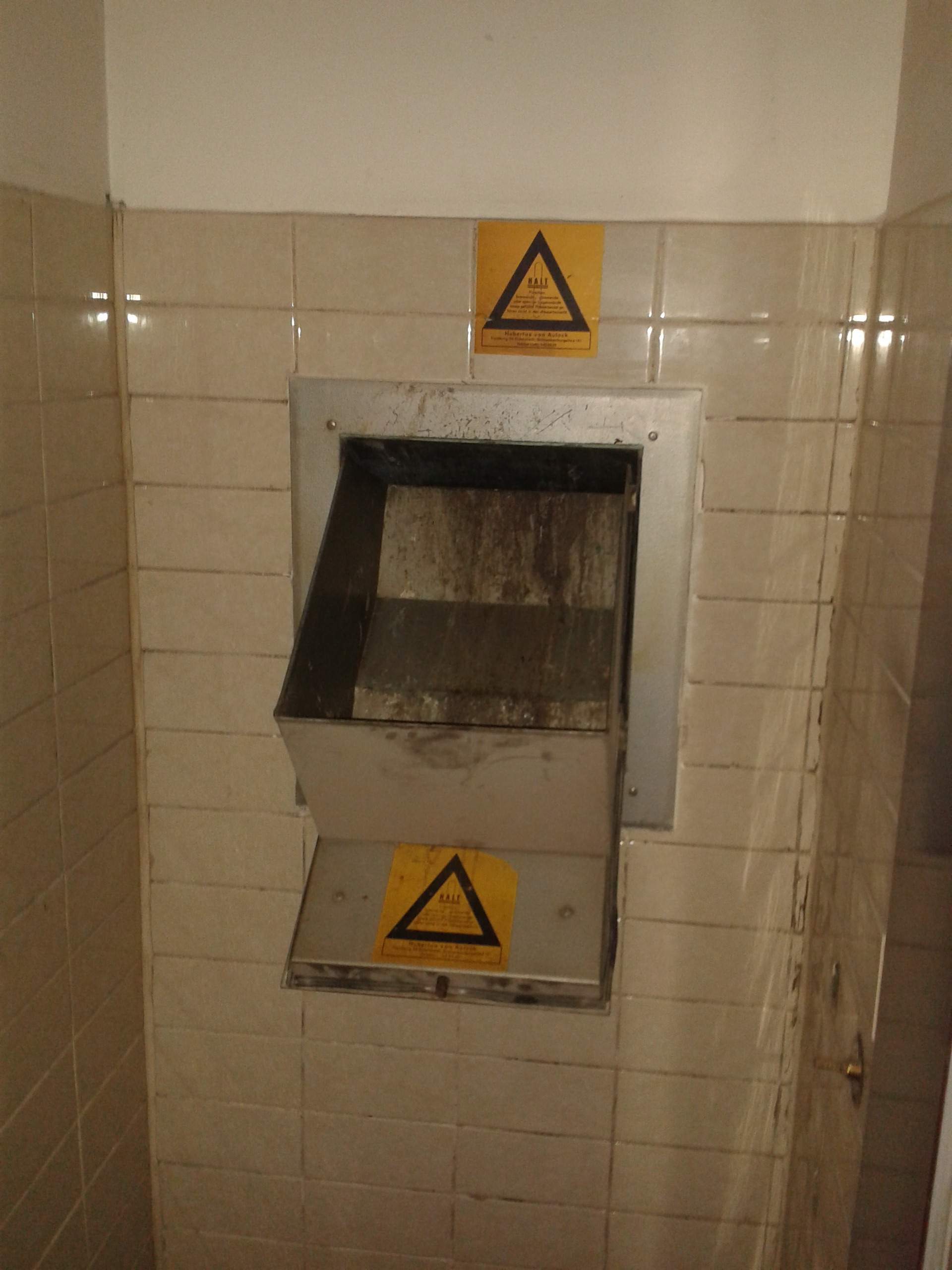 Garbage chute in a building